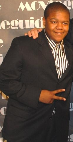 Actor Kyle Massey.